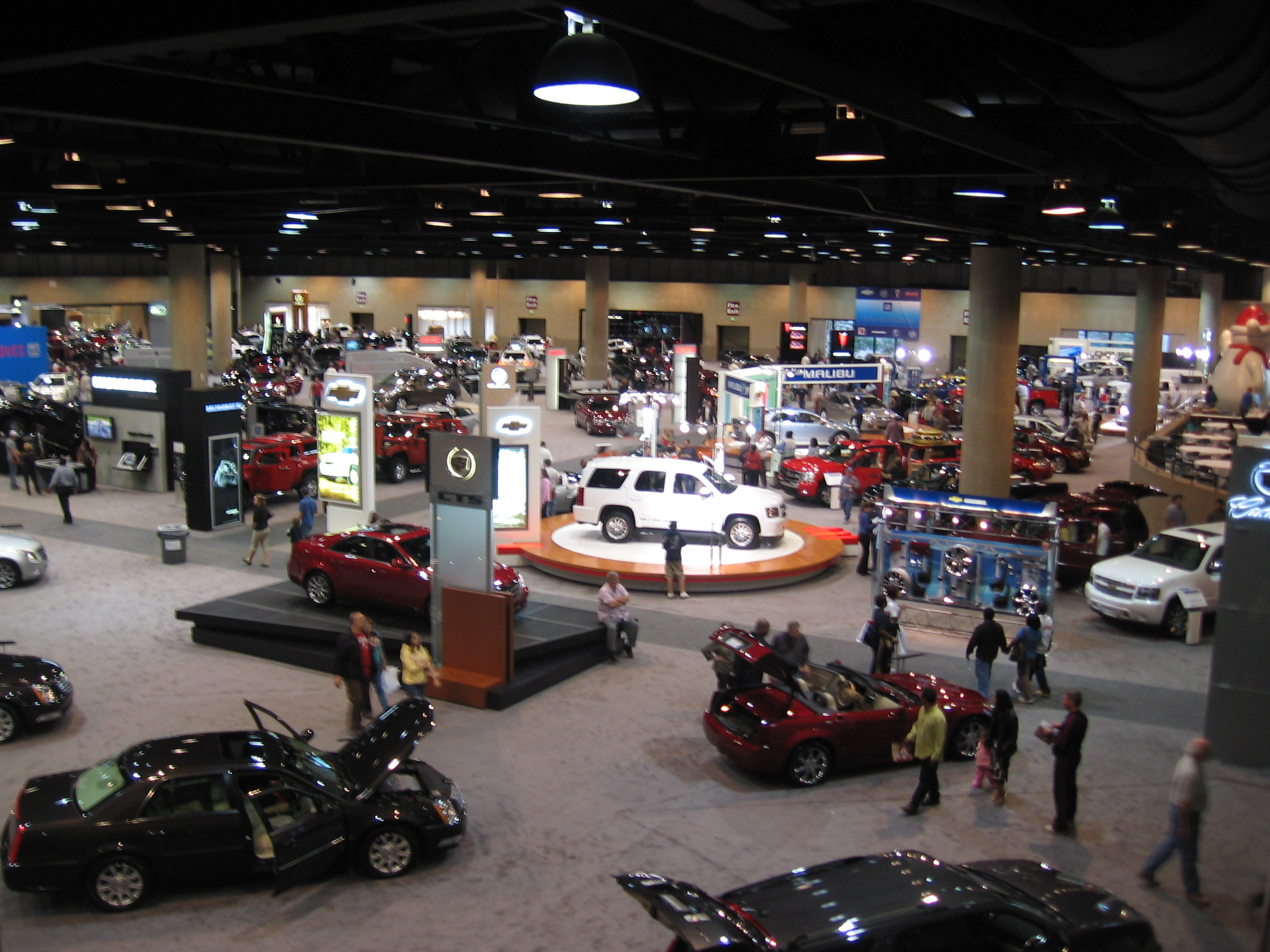 View of selection of vehicles during Alabama International Auto Show